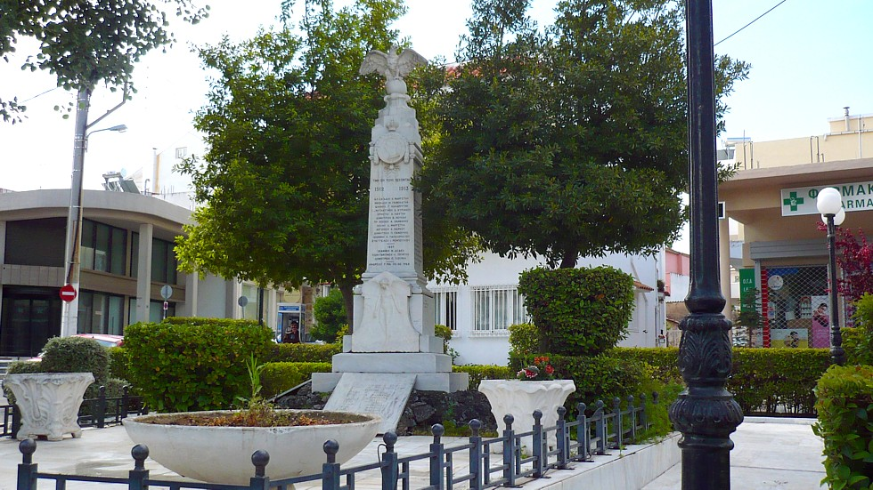 The Picture depicts the Spata fallen residents momument.